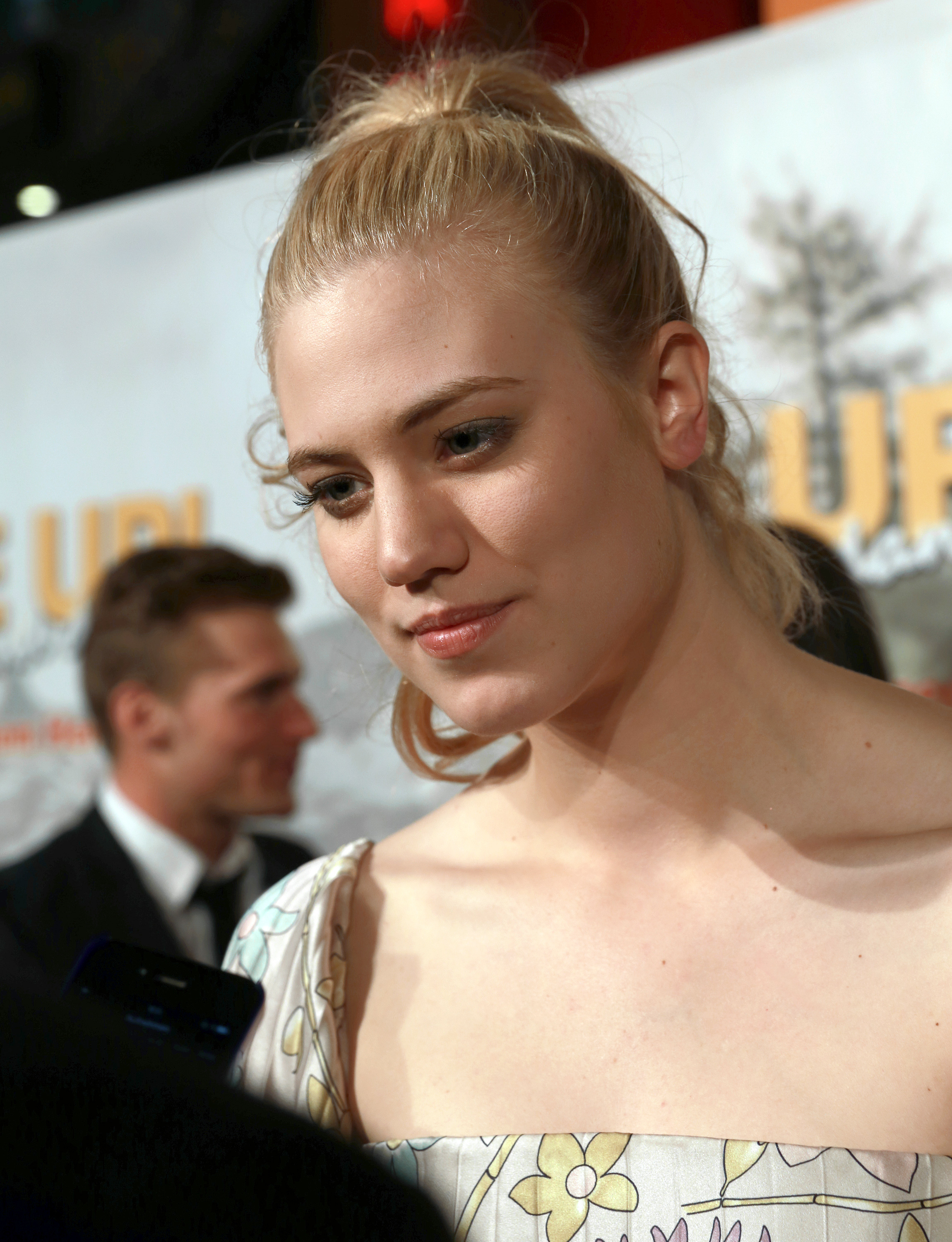 Larissa Marolt at the premiere of Rise Up! And Dance at UCI Kinowelt Millennium City in Vienna.